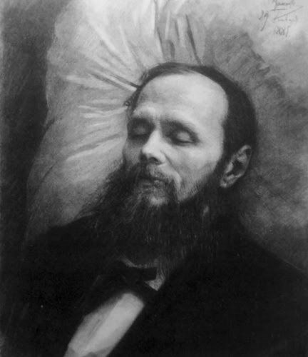 Dostoyevsky on his death bed, drawn by Ivan Kramskoy, 29 January 1881